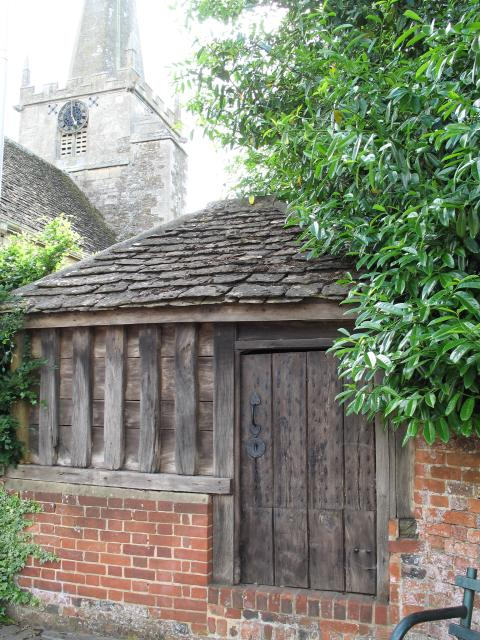 Bromham village lock up, Bromham, Wiltshire